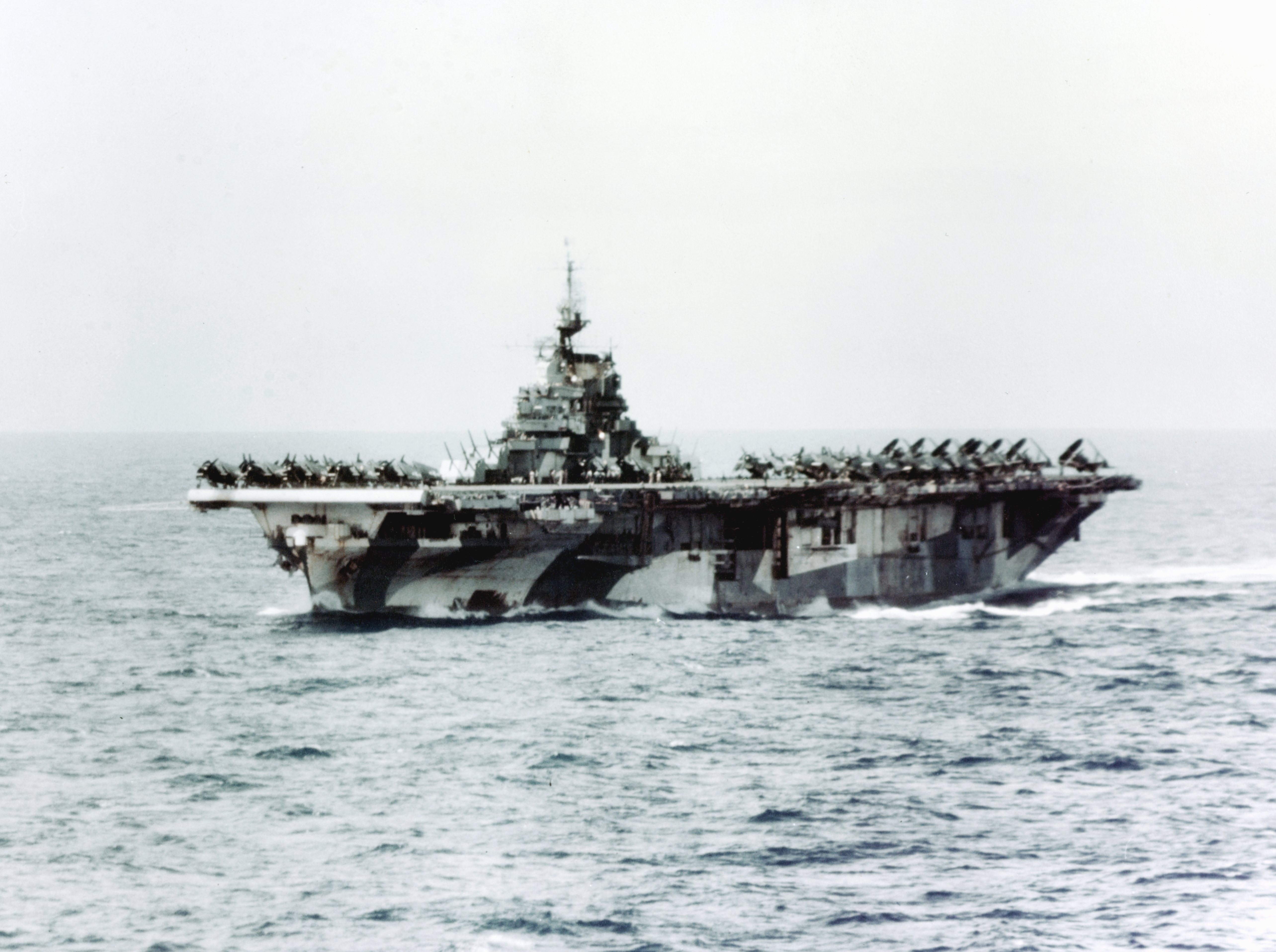 The U.S. aircraft carrier USS Hornet (CV-12) operating near Okinawa, Japan, on 27 March 1945. The planes visible on deck belonged to Carrier Air Group 17 (CVG-17). The ship is painted in dazzle pattern Camouflage Measure 33, Design 3A.